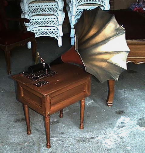 A prop Gramophone from a theatrical production of "My Fair Lady"